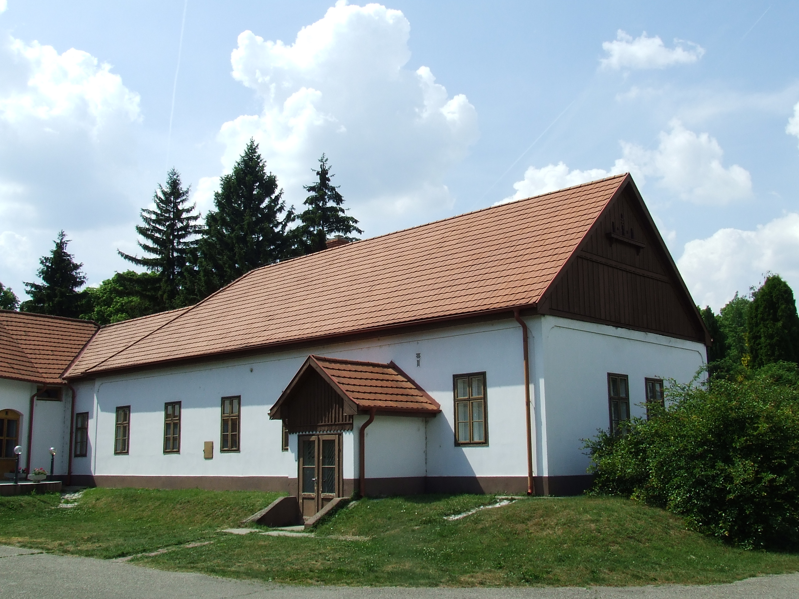 Building of the Lace House and Lace Museum in Kiskunhalas